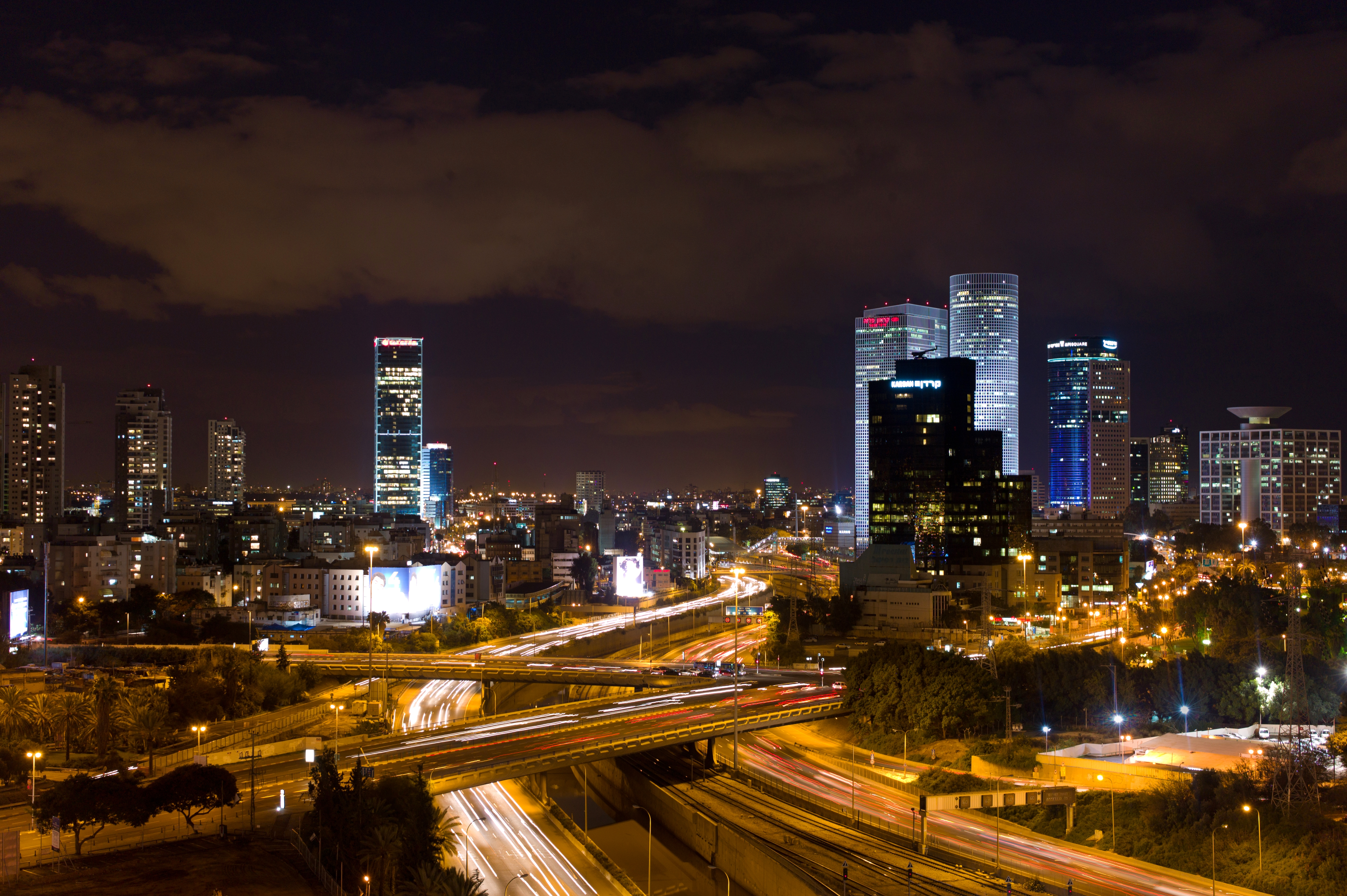 Tal Aviv at night, Israel.